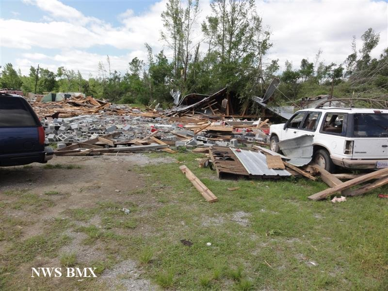 Destroyed Fire Department building from EF3 tornado in Eoline, Alabama on April 27, 2011